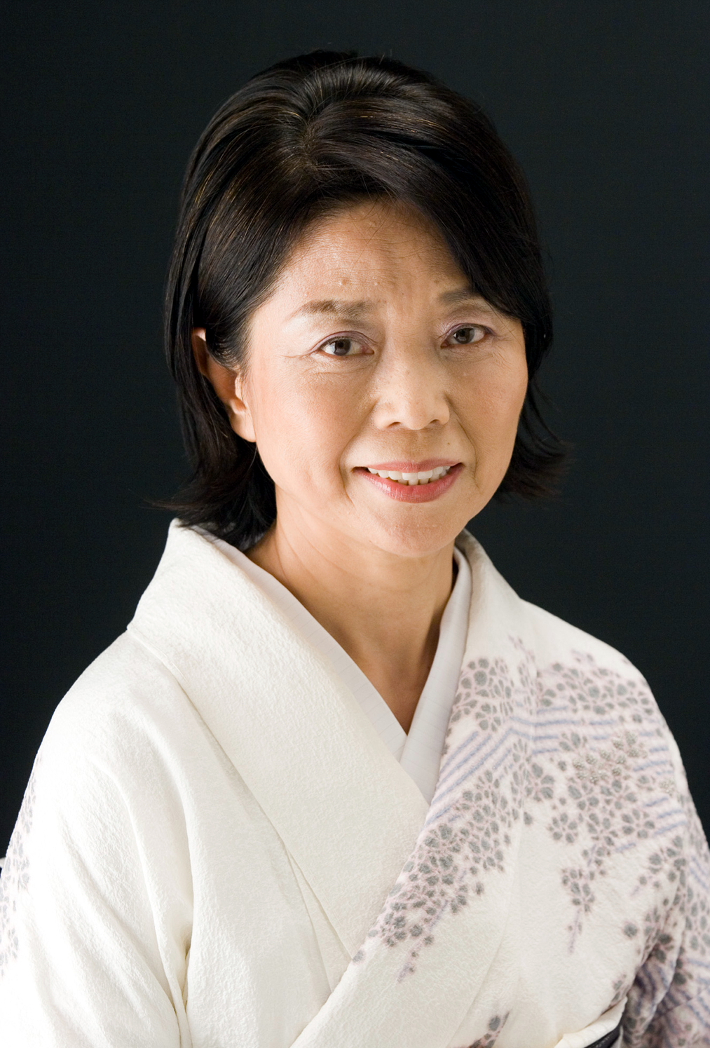 Keiko Nosaka, Executive Director of Nihon Sankyoku Association, received the Person of Cultural Merit on November, 2015.